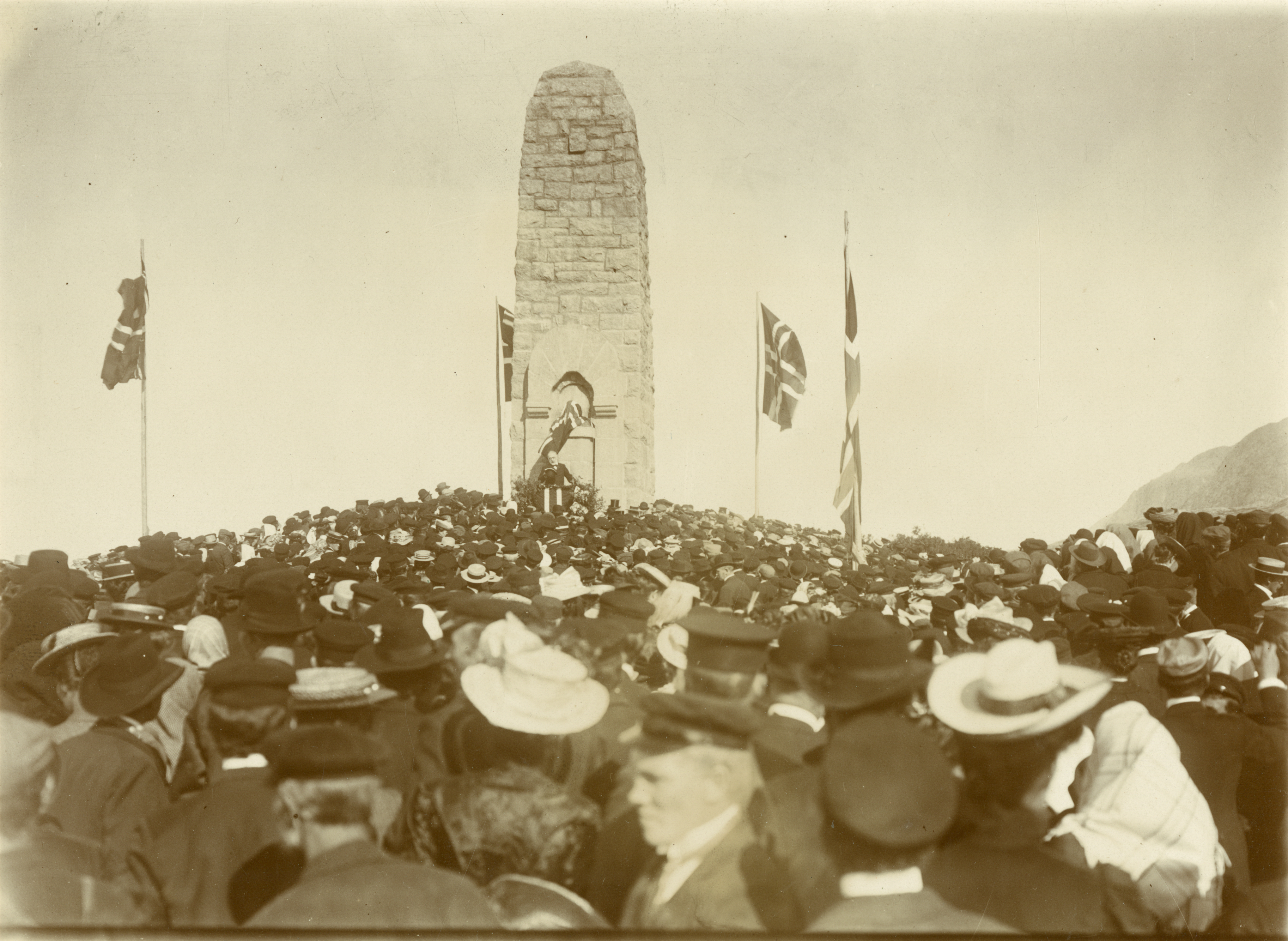 Petter Dass-memorial at Alstahaug church in Norway. From 1908. By architect August Nielsen and sculptor Georg Andreas Heggelund (1860-1916). This image on crowdsourcing geotagging platform Fotodugnad